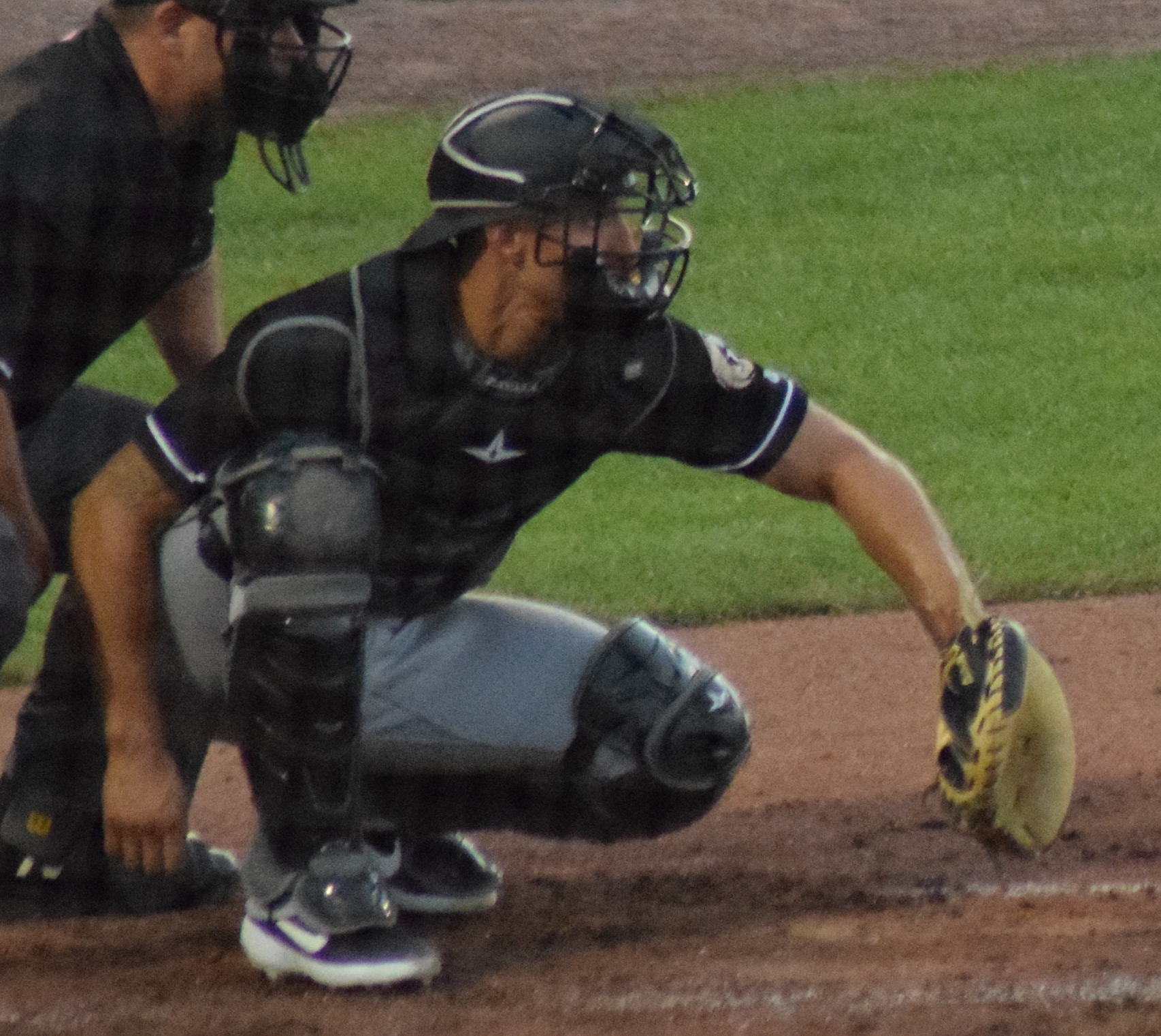 Jose Pirela bats for the Lehigh Valley Ironpigs and Seby Zavala catches for the Charlotte Knights during a 2019 game at Coca-Cola Park in Allentown